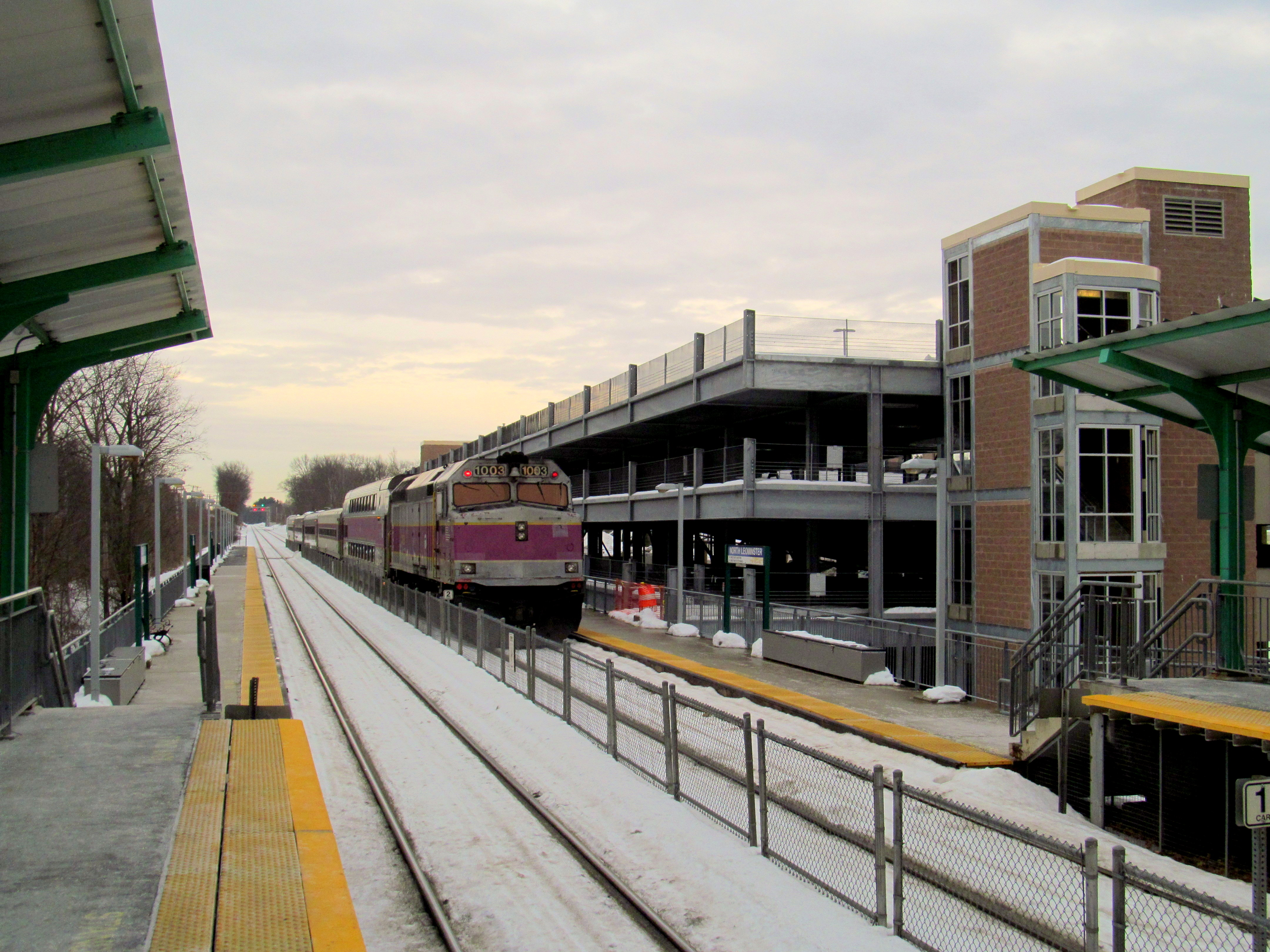 An inbound train leaves North Leominster station in December 2013. The parking garage was nearly finished at this time, but not yet open.